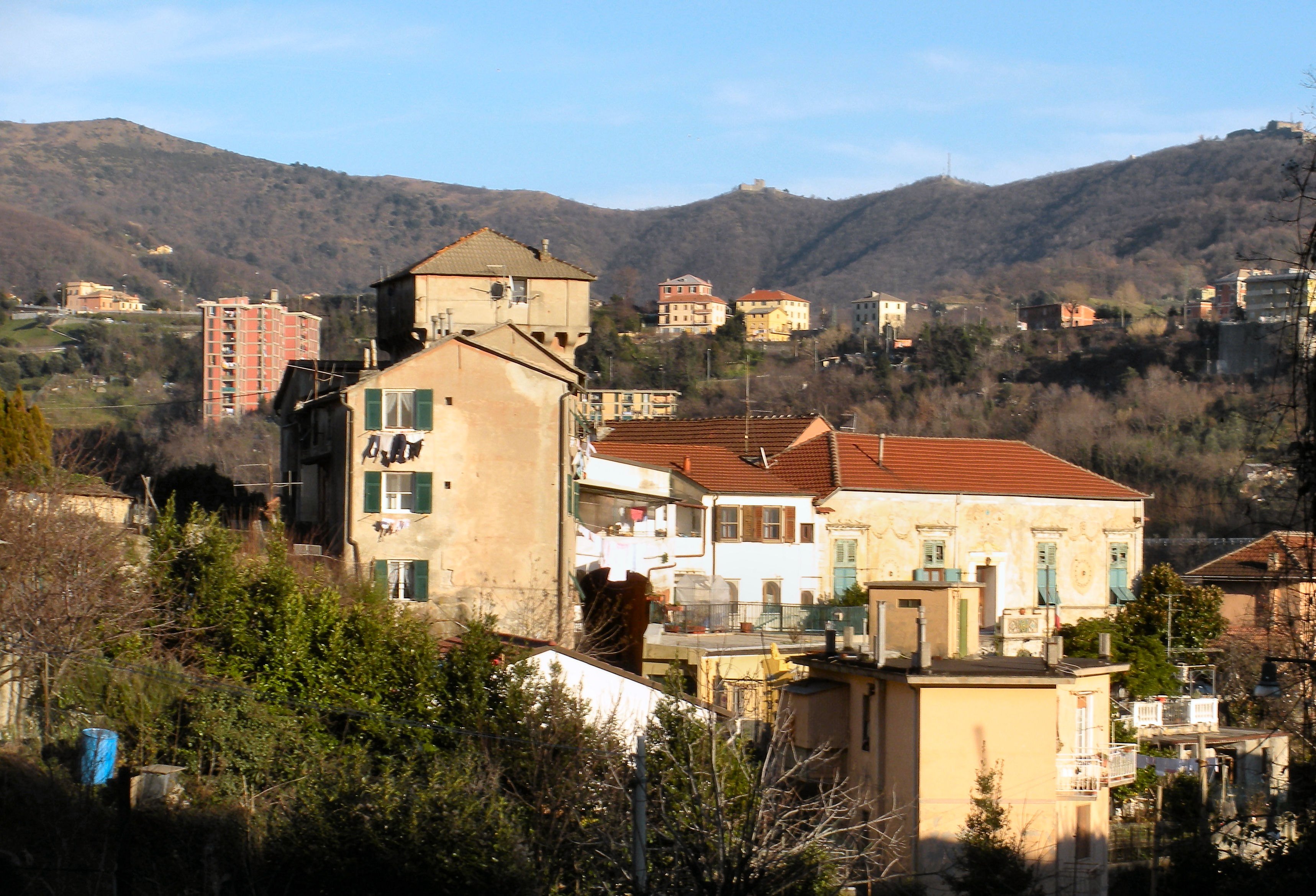 Genoa (Italy), quarter of Rivarolo, the Commandery of Epiphany at Fegino